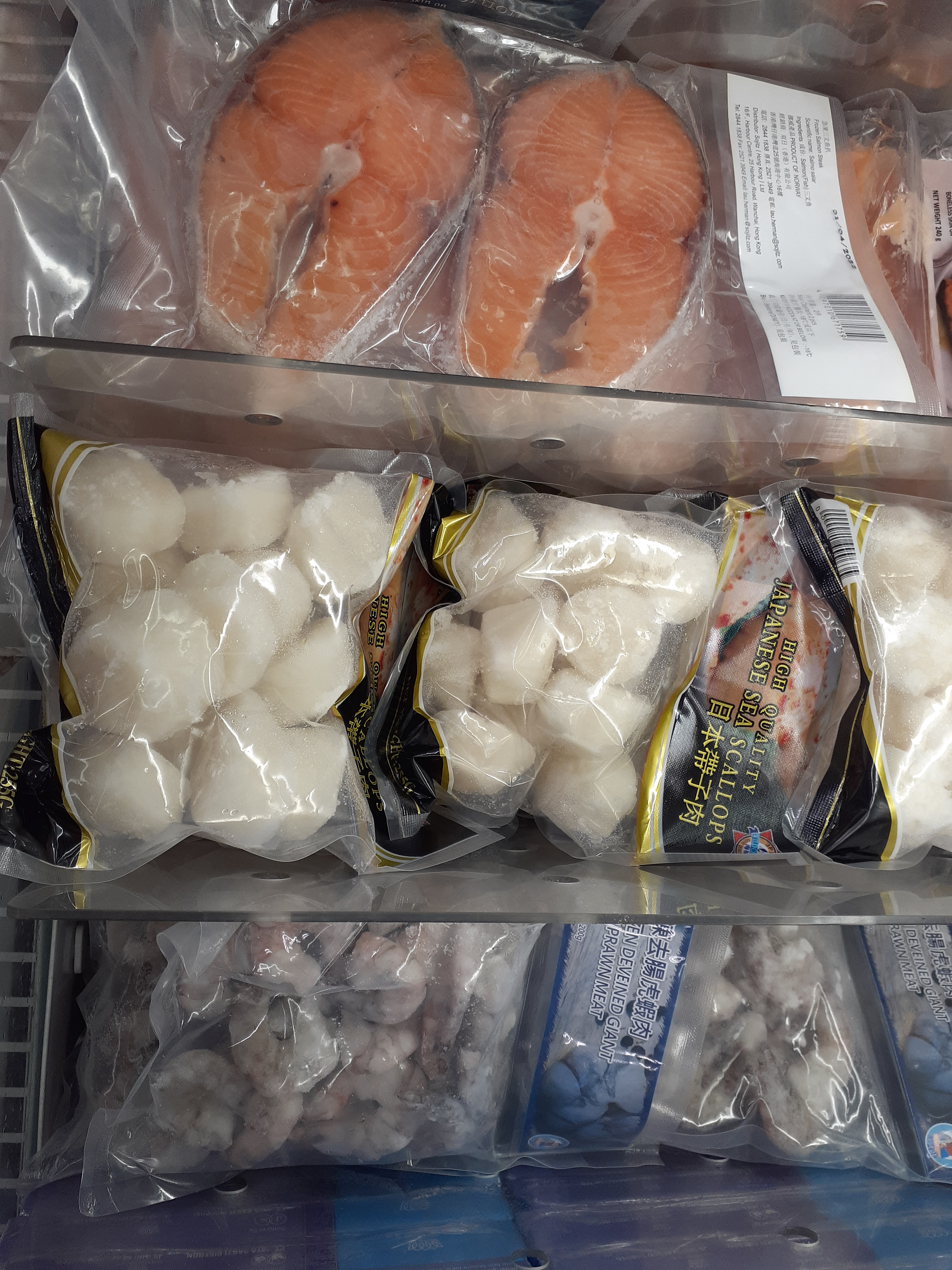 HK SW 上環 Sheung Wan 德輔道中 Des Voeux Road Central 龍記大廈 Loon Kee Building shop 惠康超級市場 Wellcome Supermarket goods in May 2020